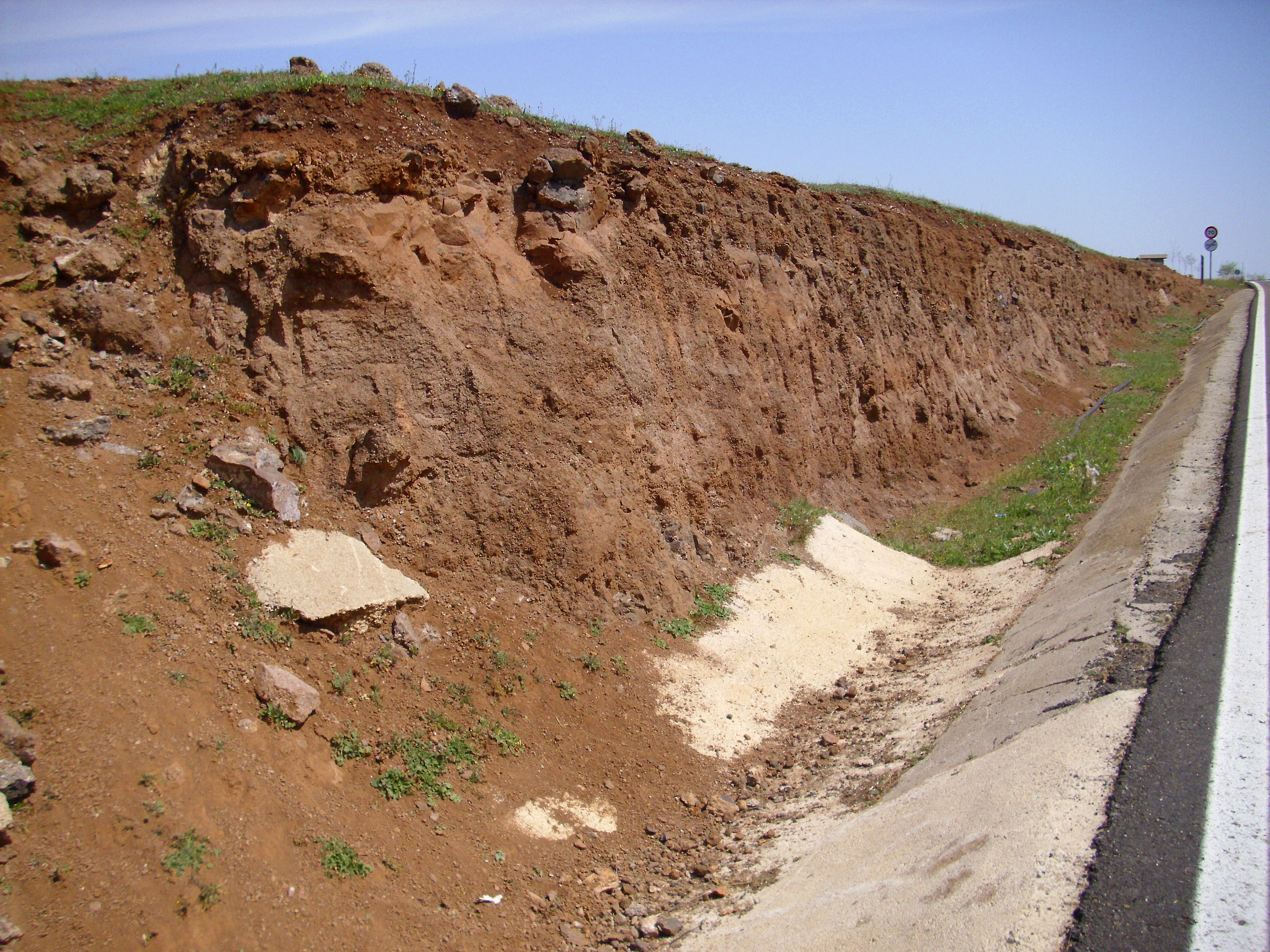 Volcanic soil in road slice, Campo de Calatrava, Spain